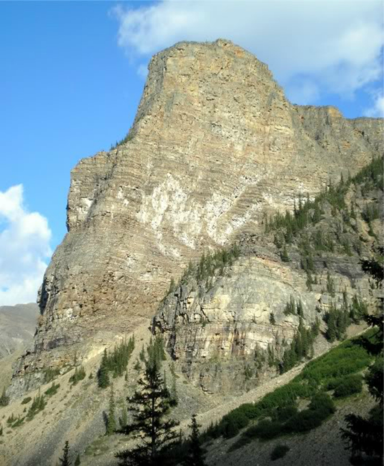 Tower of Babel in Banff National Park, Canada